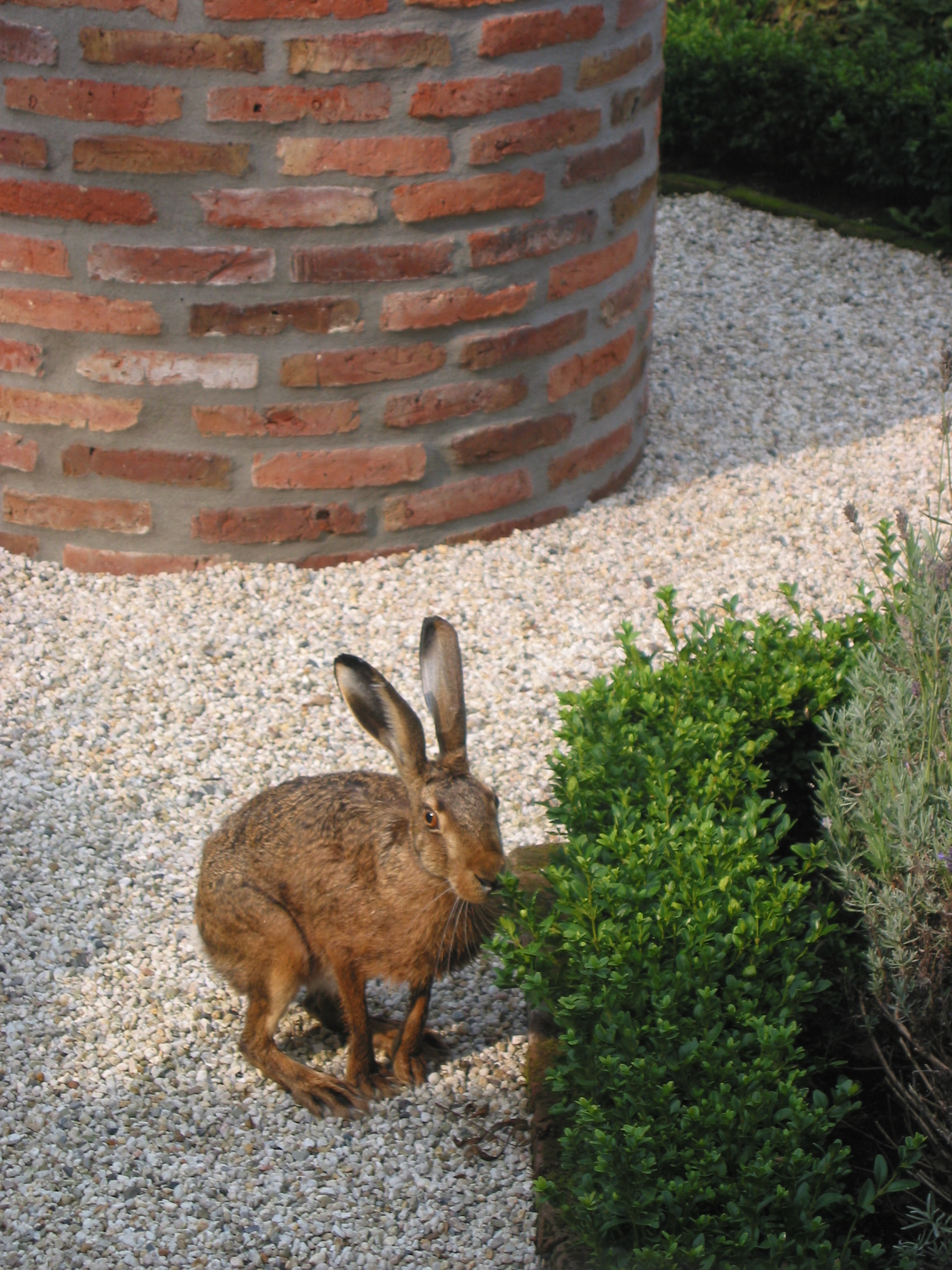 Haas op 'De Nijkamp'